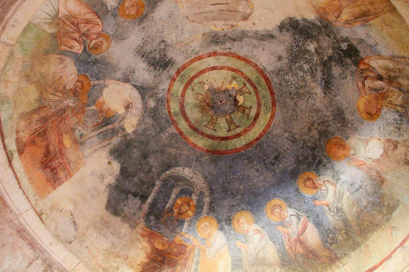 St. Nicholas Church, Demre